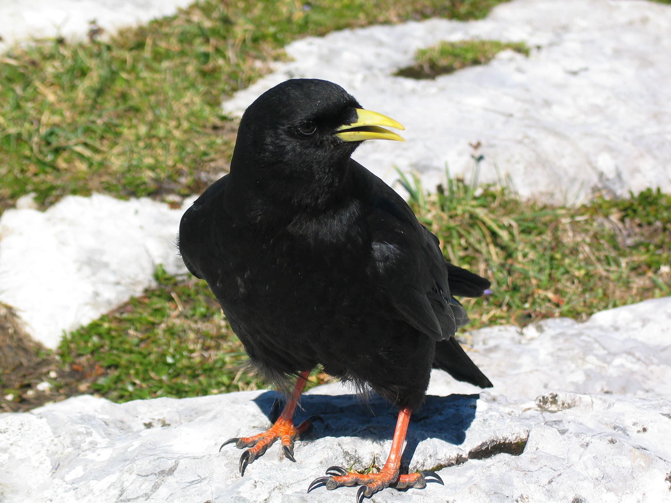 Alpine Chough at the Warscheneck, Upper Austria